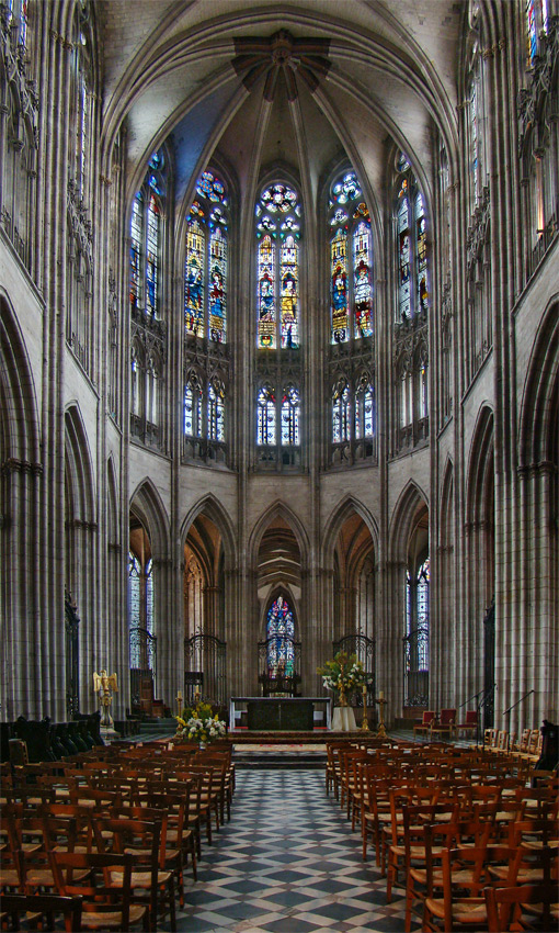 Évreux Cathedral, Eure, Normandie, France. Gothic choir.